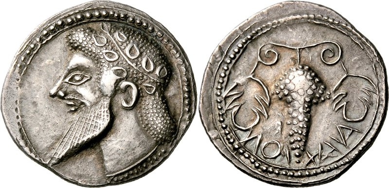 Naxos, Sicily, 530 -510 BC. Silver drachma (5.57 g), Chalcidian standard. Head of Dionysos to left, with long, pointed beard, ivy wreath in his hair and a plain torc-like necklace bordered by dots at the truncation; around, border of dots within two linear circles. Rev. ΝΑΞΙΟΝ (of Naxians), bunch of grapes on stalk with two leaves